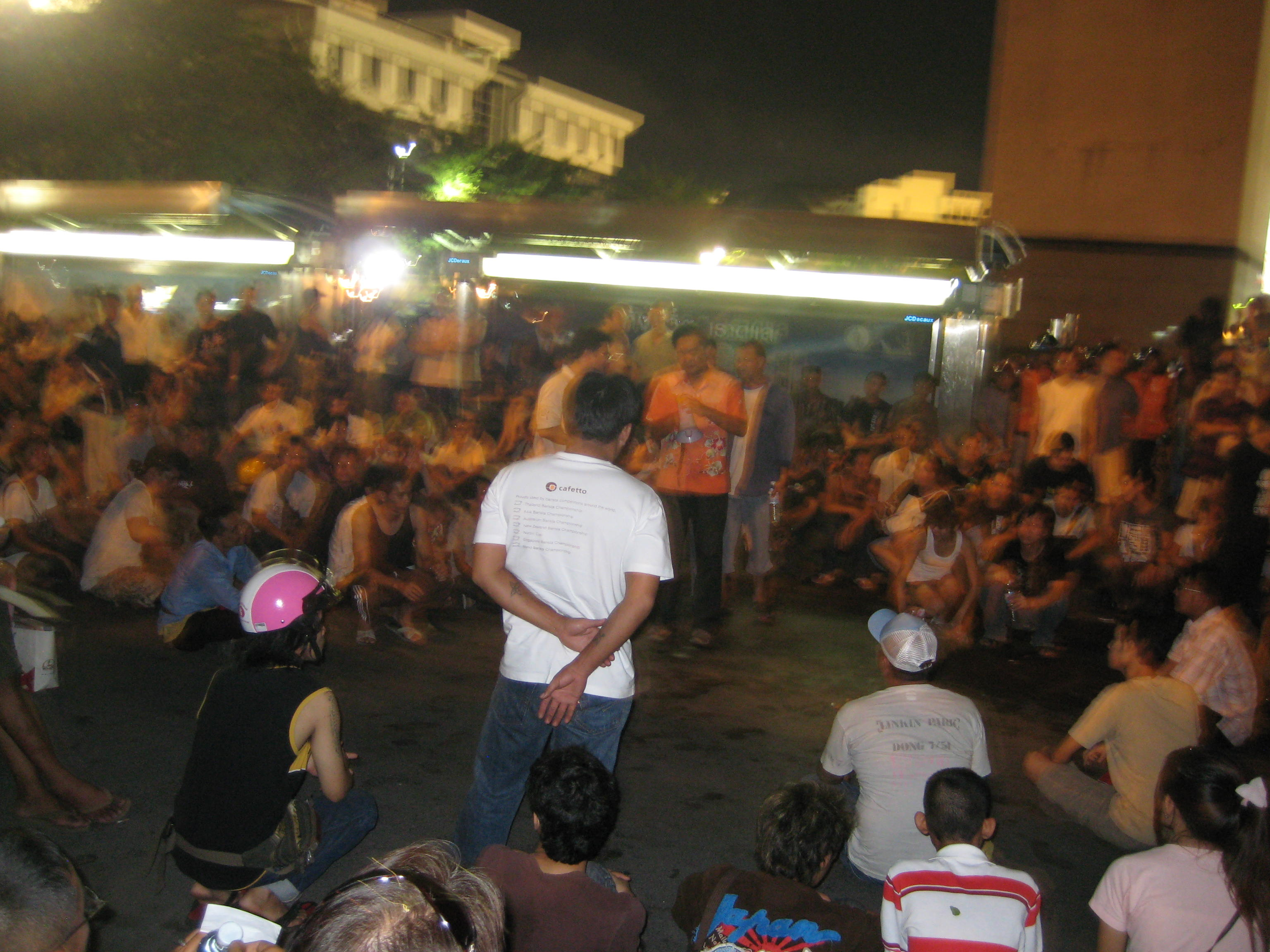 The UDD protests at Ramkhamhaeng University on 17 May 2010